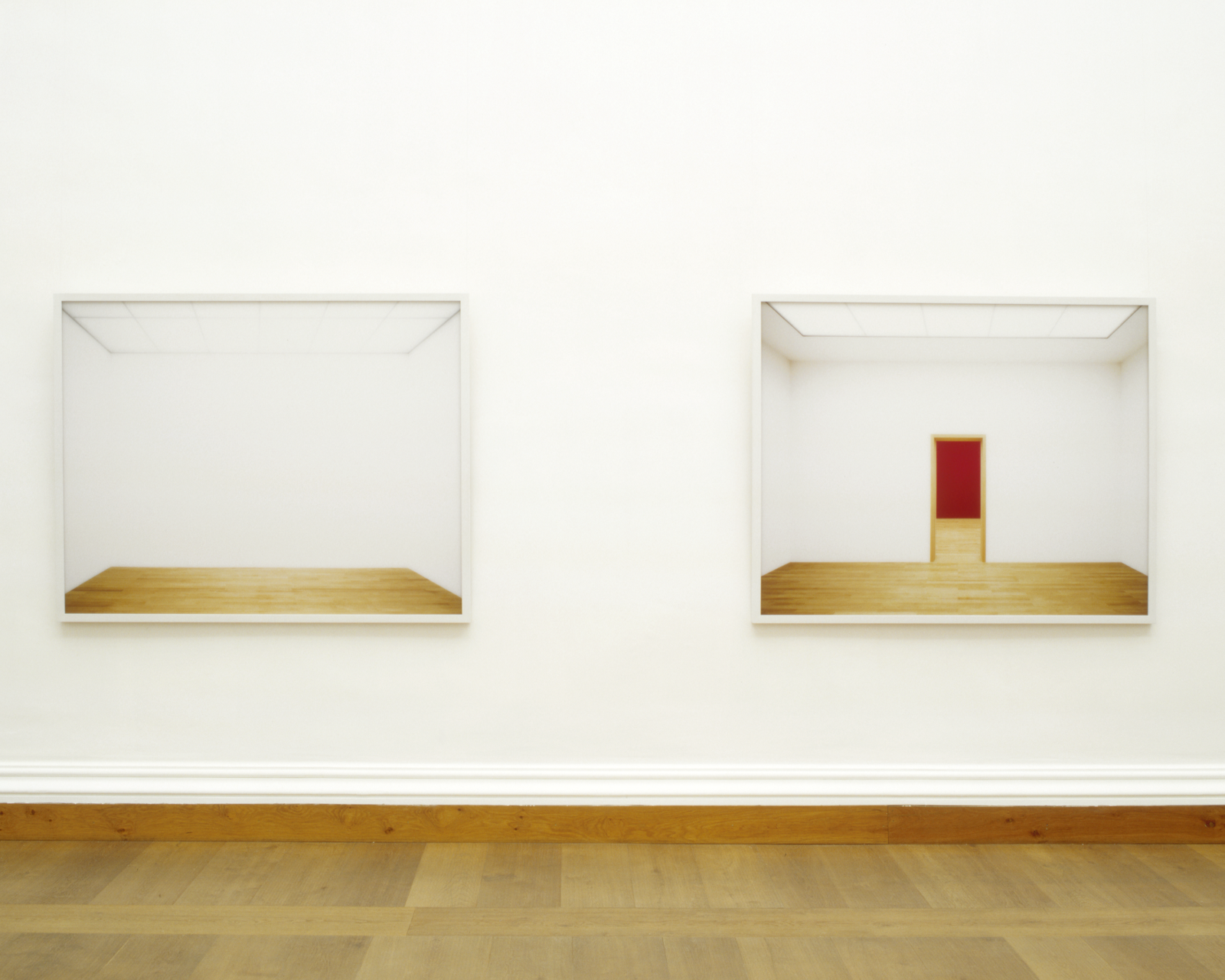 Photograph showing works from Esperanza Spierling. It was taken in the exhibition of the Marion-Ermer-Prize 2004 in Weimar.